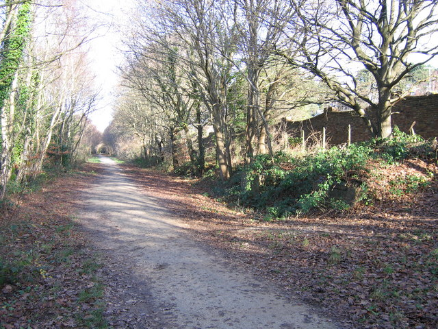 Castleman Trail, Broadstone From Upton, near Poole, to Ringwood the route of the Southampton & Dorchester Railway, except for a portion around Wimborne, has been converted into a cyclepath called the Castleman Trail after the Wimborne solicitor largely responsible for the promotion of the railway. The line had opened in 1847 but was closed to passengers in 1964, though goods traffic survived over the pictured section for another 13 years. The path here is running between the garden walls of houses in Lower Golf Links Road, Broadstone, and the golf course and the small brick plinth almost under the nearest tree is all that remains of a footbridge over the railway that allowed players safe access from that road. Today golfers can drive to a new clubhouse from Station Approach, though the station, like the railway and footbridge, is also no more.